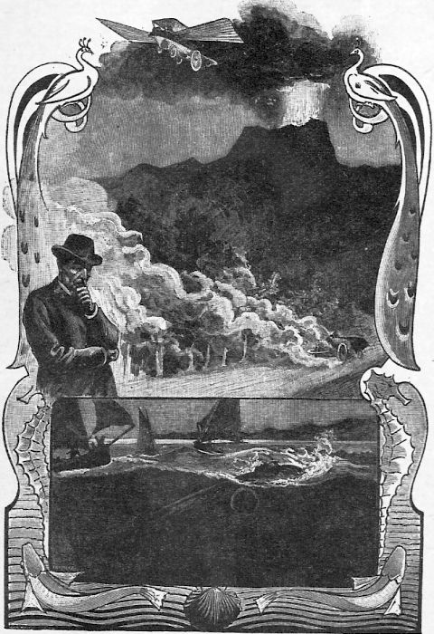 An illustration from Jules Verne's novel "Master of the World" (1902-03) drawn by George Roux.